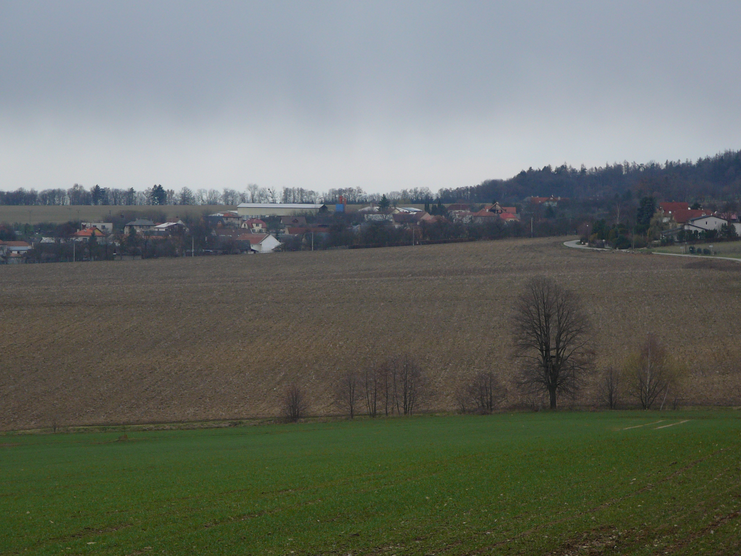 Lukoveček, view from Fryšták